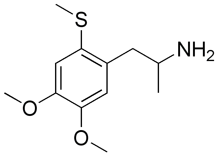 Chemical structure of ortho-DOT